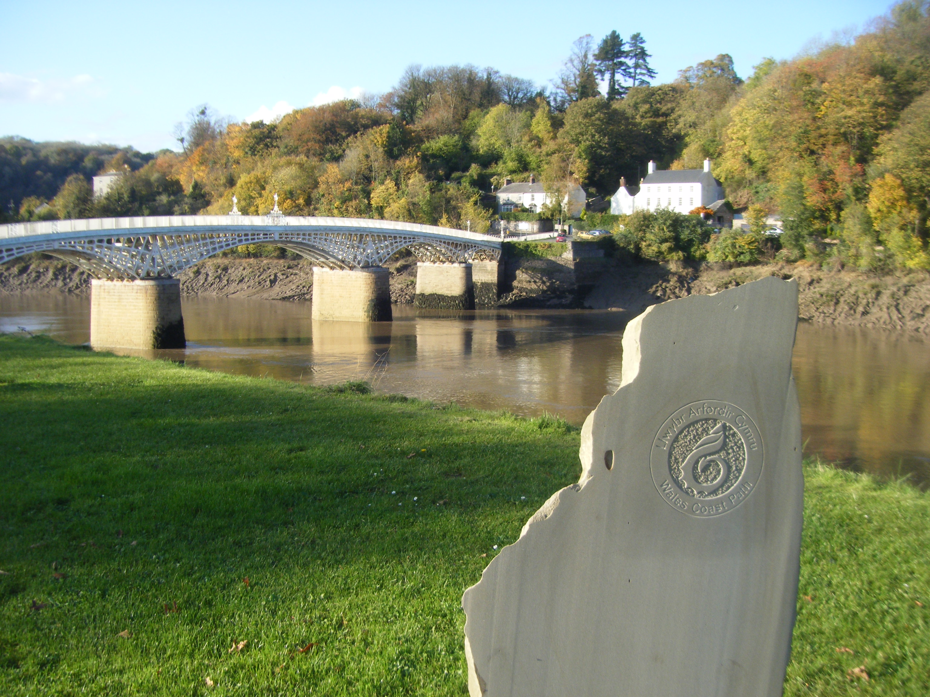 Stone marking one end of the Wales Coast Path at Chepstow